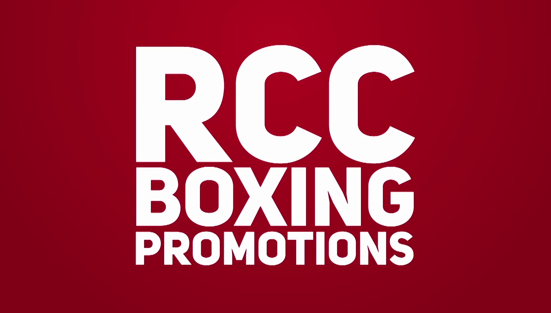 RCC Boxing Promotions